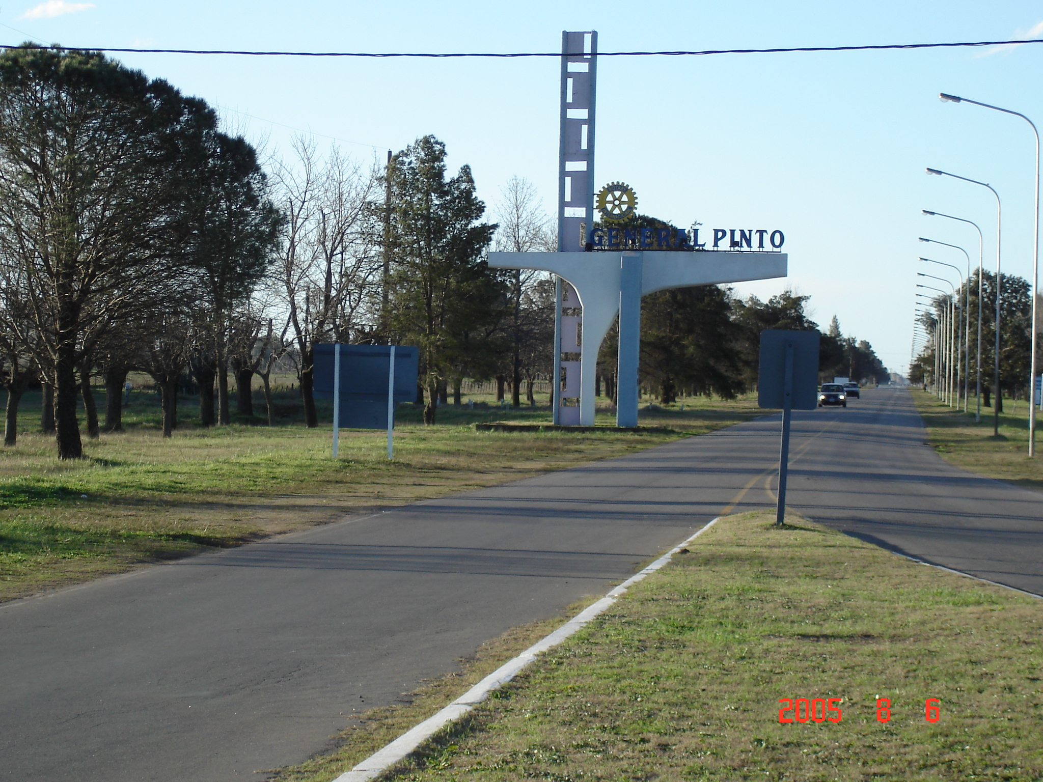 General Pinto